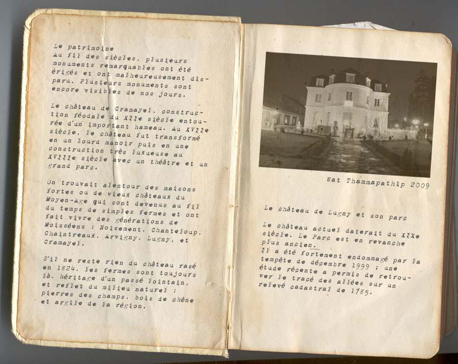 Thammapathip Temple (AITBF)